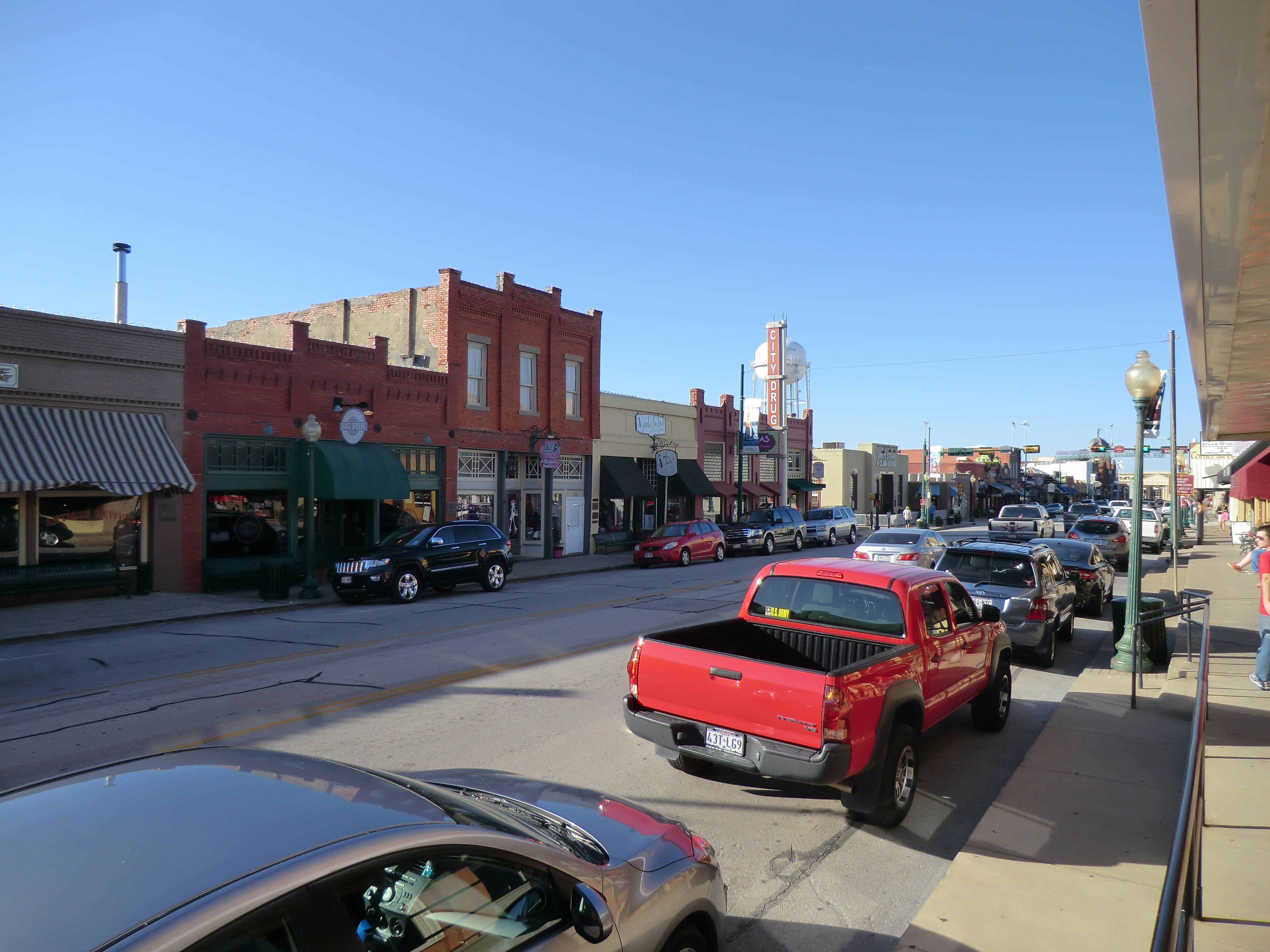 Photo of Main Street, Grapevine, TX.